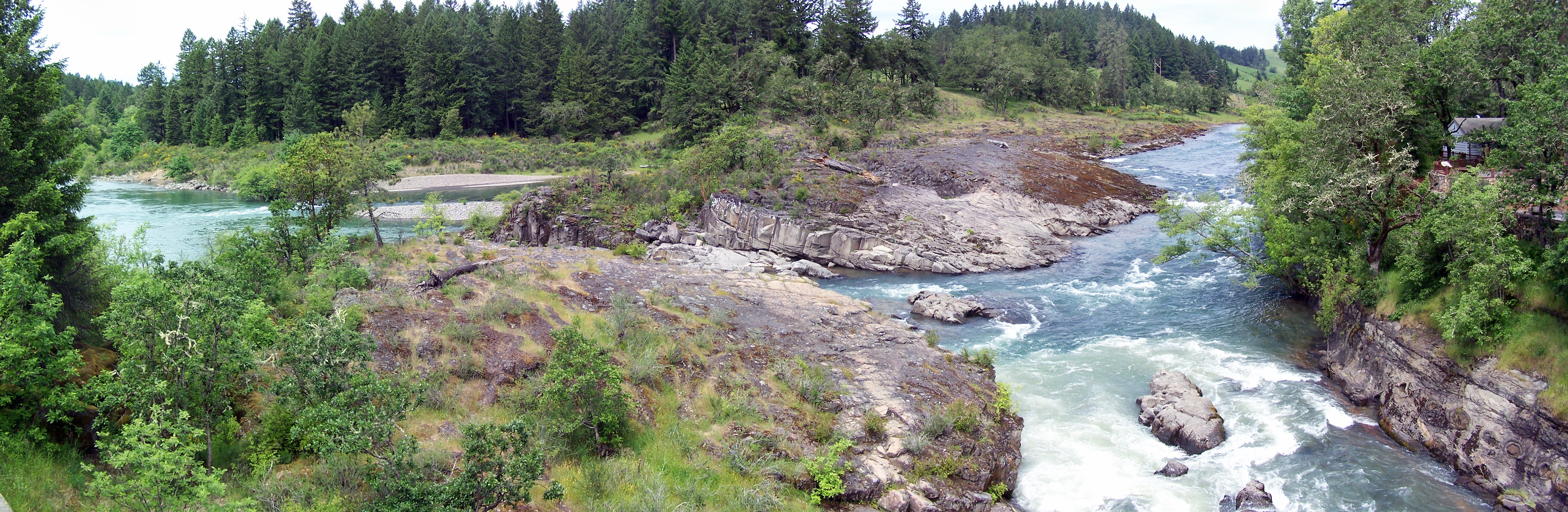 A panorama of the Colliding Rivers, near Glide, Oregon. The North Umpqua River meets the Little River head on.